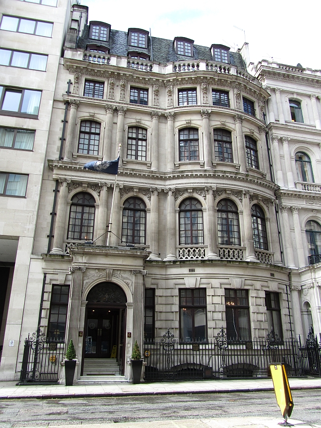 Royal Aeronautical Society headquarter at No.4 Hamilton Place, London